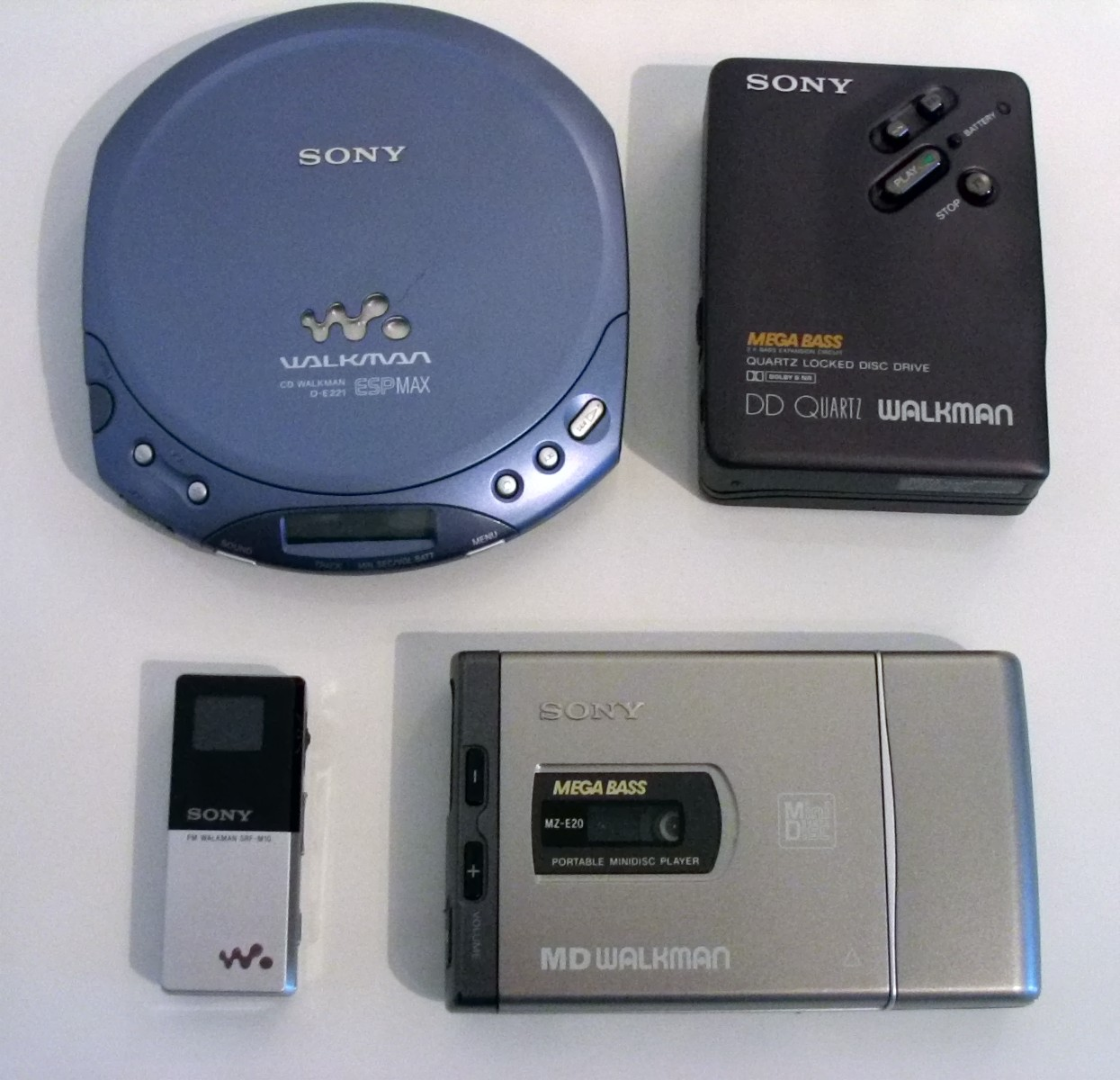 Members of the Sony Walkman line of products; photo by Marc Zimmermann